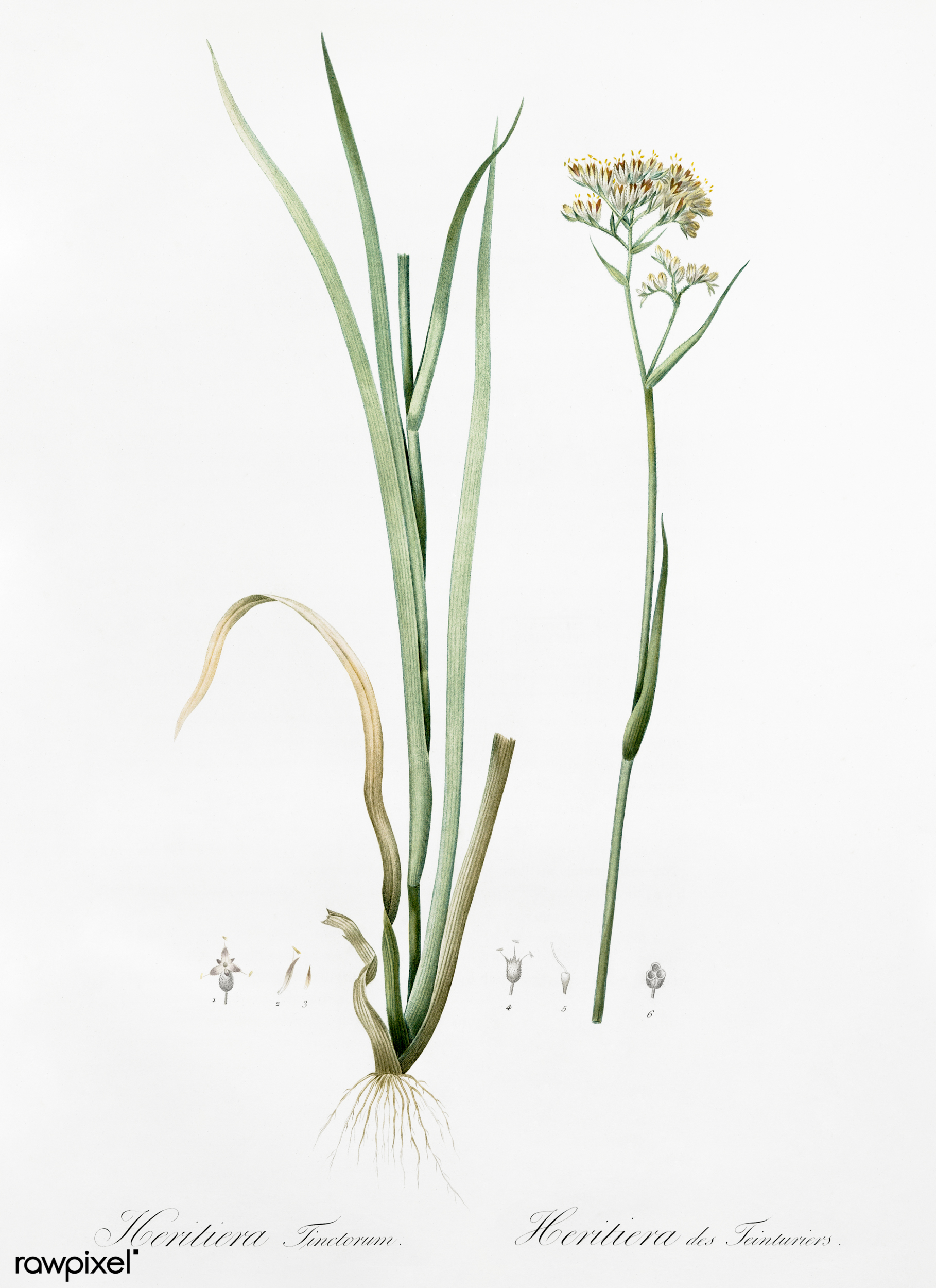 Carolina redroot illustration from Les liliacées (1805) by Pierre Joseph Redouté (1759-1840). Digitally enhanced by rawpixel.